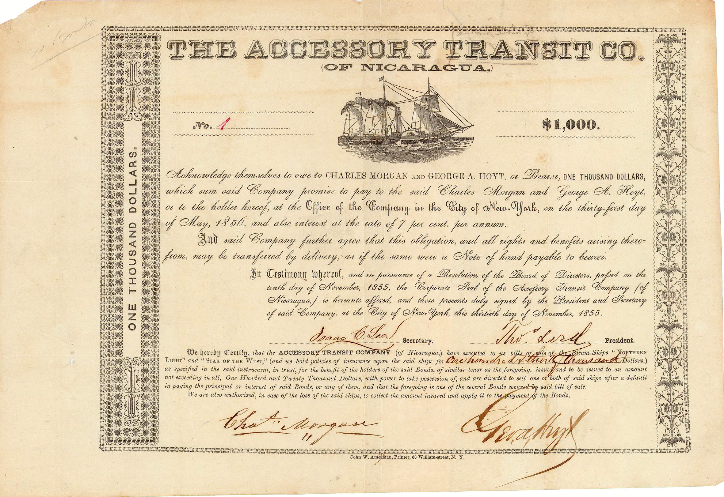 Bond of the Accessory Transit Company (of Nicaragua), issued 30. November 1855, signed by Charles Morgan; vignette with the steam yacht "North Star", built for Cornelius Vanderbilt